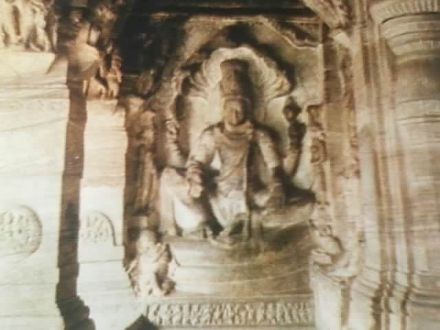 The Vishnu in Badami Cave Temple